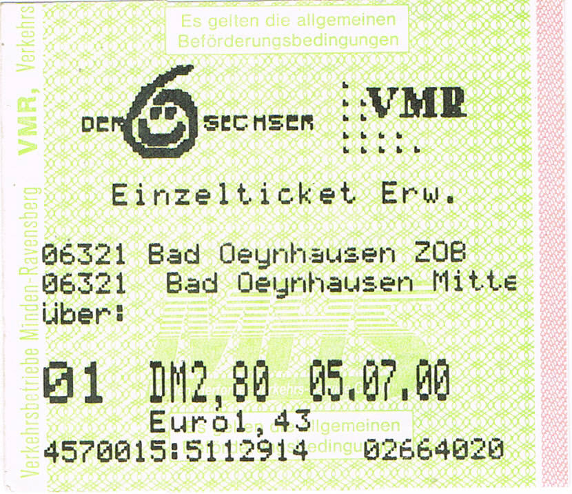 bus ticket of Bad Oeynhausen in July 2000